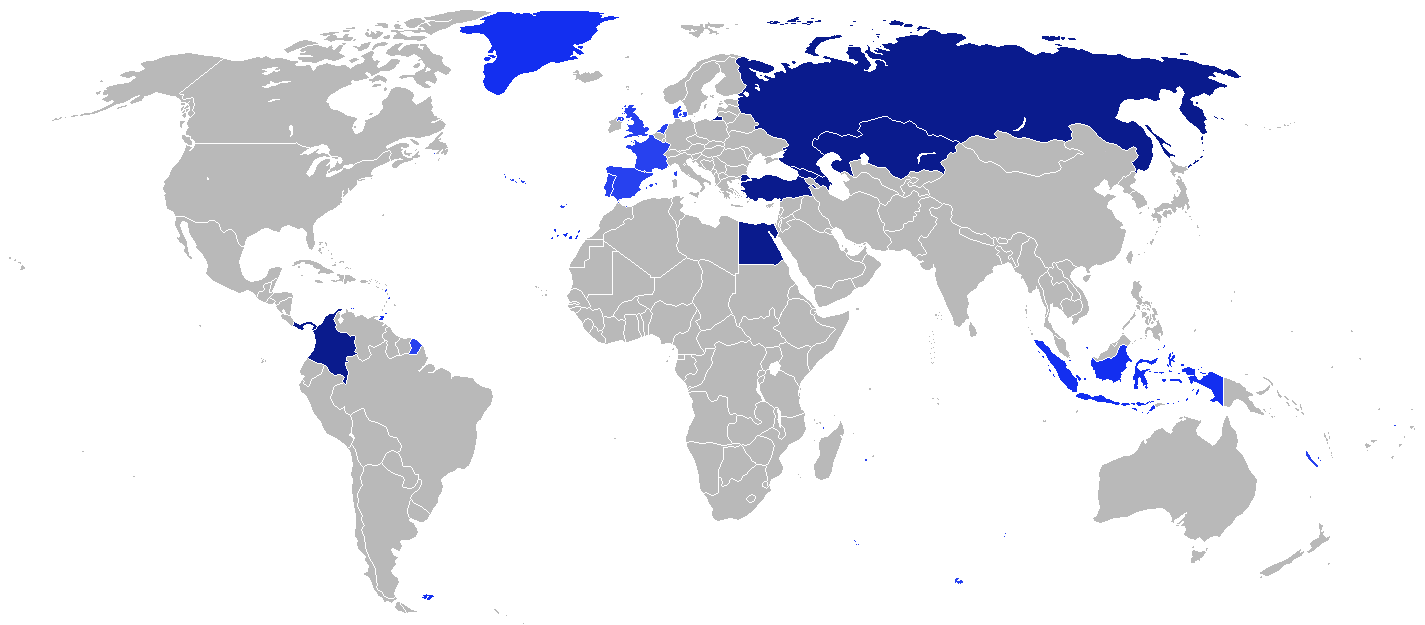 Map of transcontinental nations. states with a contiguous boundary. states with a non-contiguous boundary. states with a territory that's transcontinental.